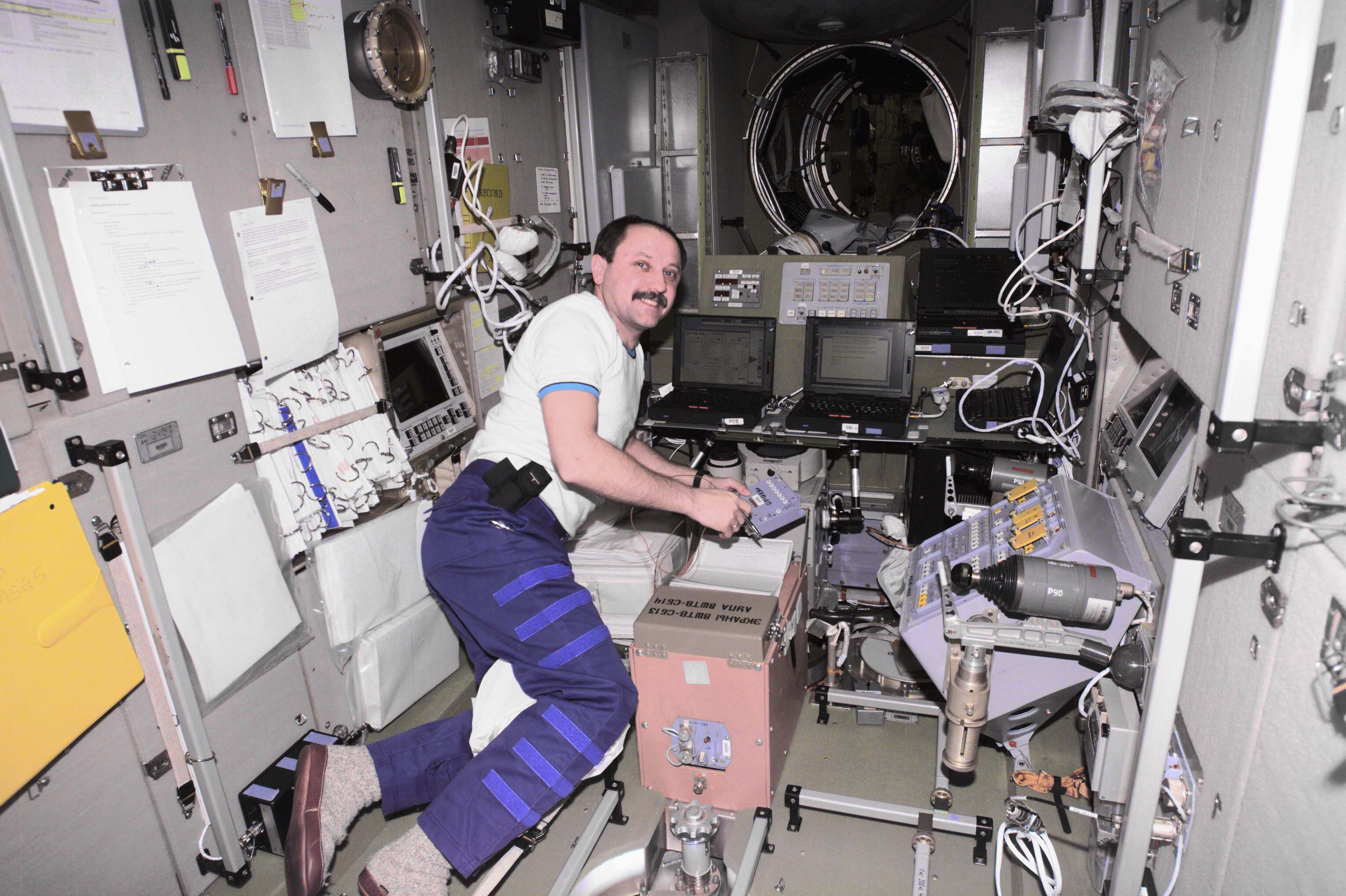 Cosmonaut Yury V. Usachev of Rosaviakosmos, Expedition Two commander, floats onboard the Zvezda Service Module. Usachev and two NASA astronauts recently took over residency on the orbital outpost from the initial station crew, who had been onboard since early November 2000. The image was recorded with a digital still camera.